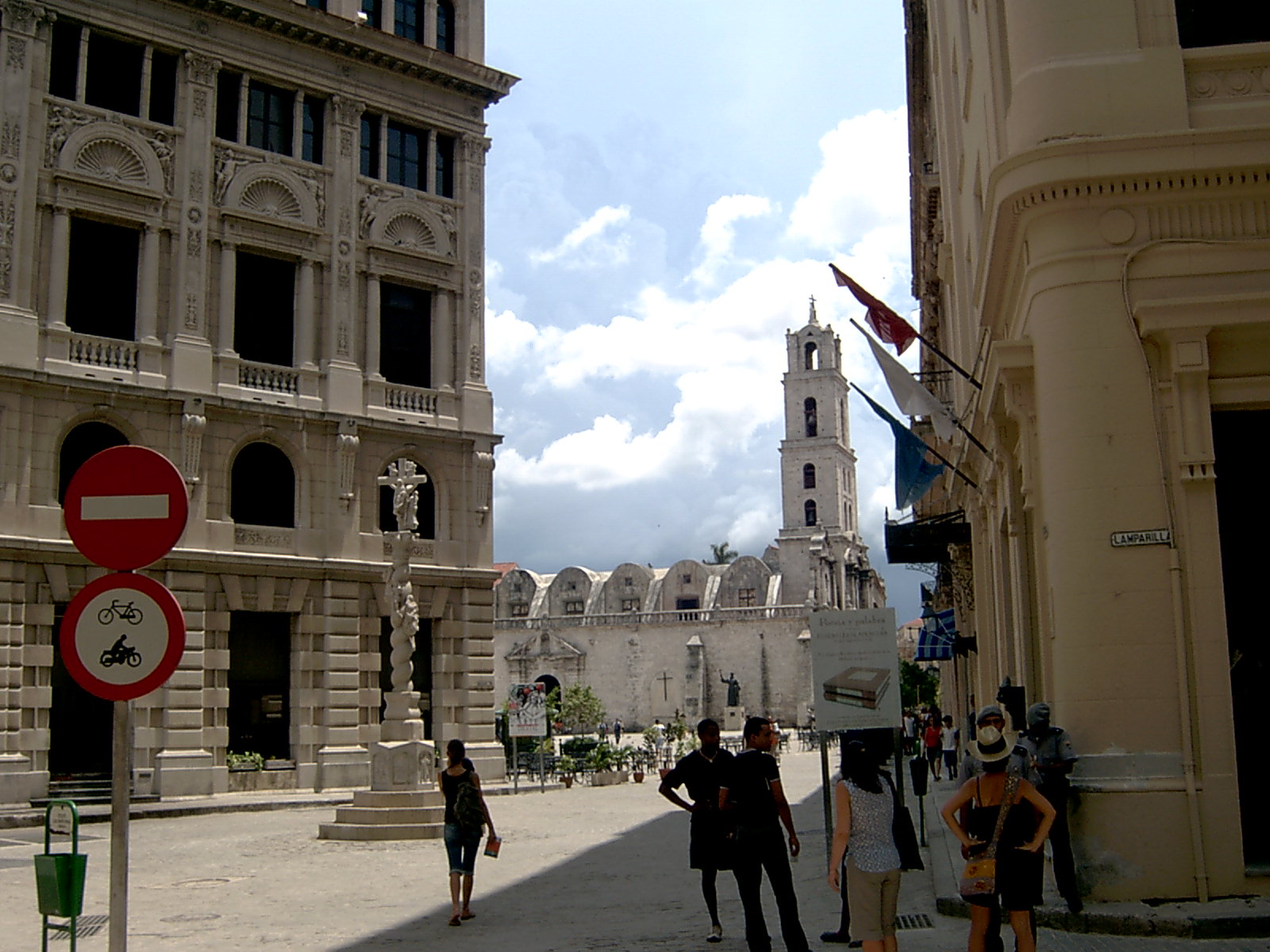 Side view of Playa Vieja in La Habana, Cuba